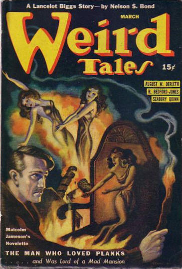 Cover of the pulp magazine Weird Tales (March 1941, vol. 35, no. 8) featuring The Man Who Loved Planks by Malcolm Jameson. Cover art by Margaret Brundage.